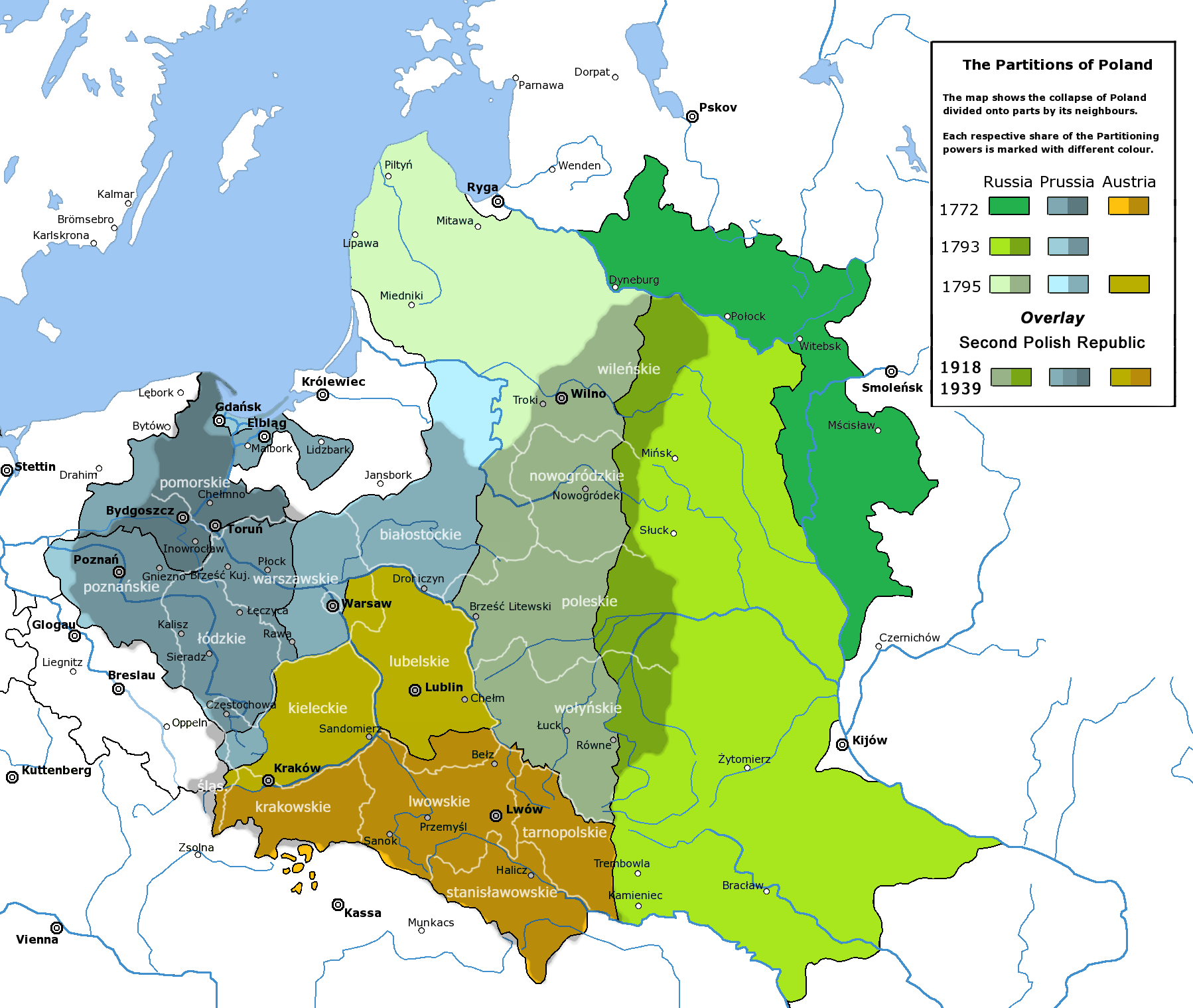 Partitions of the Polish-Lithuanian Commonwealth in 1772, 1793 and 1795, overlaid with the borders of the Second Polish Republic, 1918-1939, in dark grey, with names and outlines of Polish voivodeships (1921–1939) in off-white.